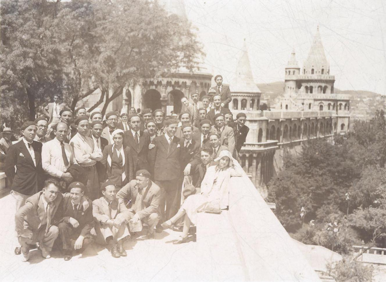 Gusla Choir in Budapest, 1933.